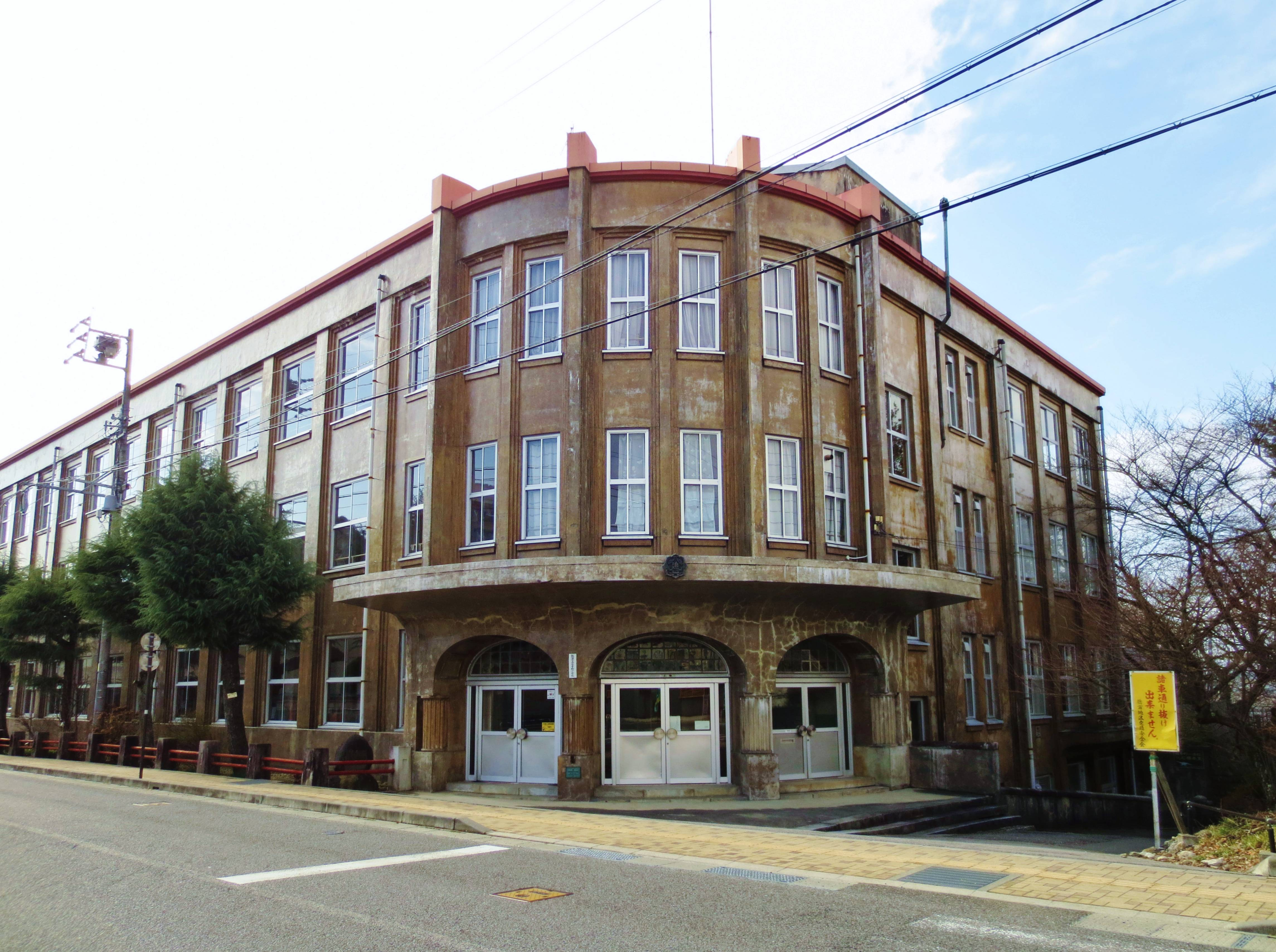 Otemachi elementary school (Iida, Nagano).